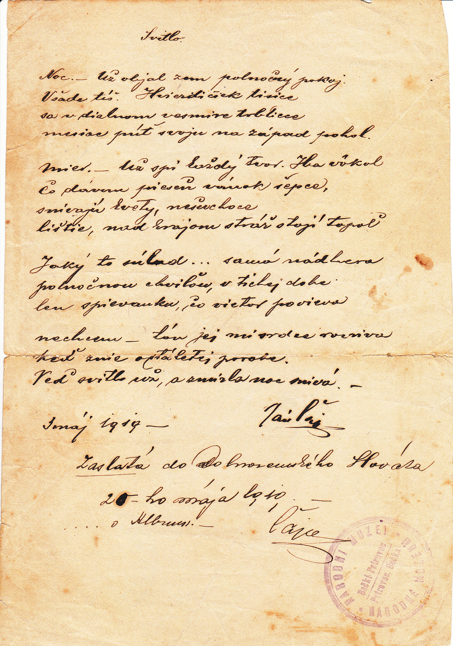 Manuscript of the poem "Svitlo" (1919) by Ján Čajak (1863-1944), Vojvodinian Slovak writer. Inventory number 3226. Srpski (latinica): Rukopis pesme "Svitlo" (1919) autora Jana Čajka (1863-1944), slovačkog književnika. Inventarski broj 3226.